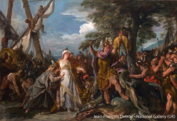 Jason and the Legendary Golden Fleece